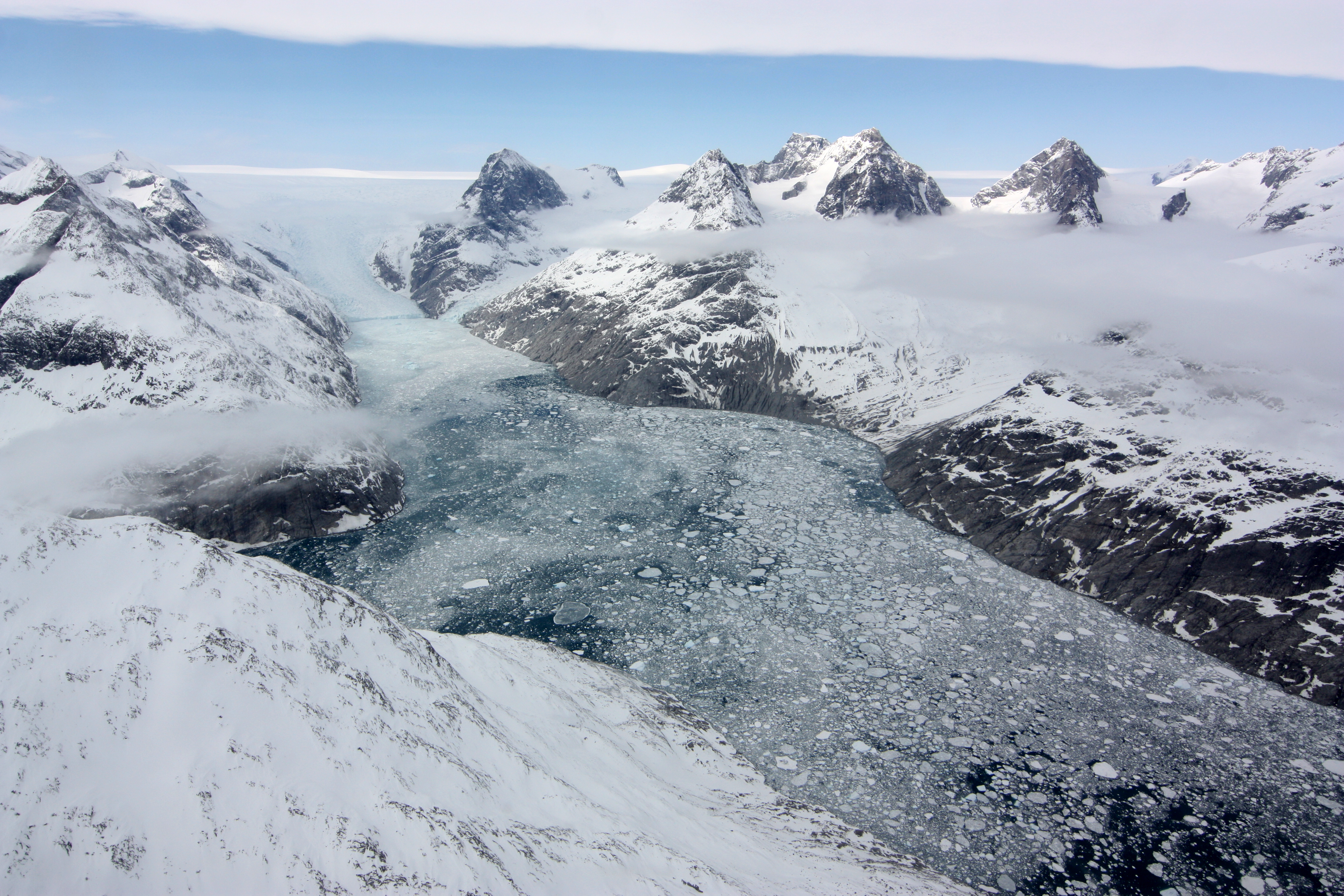 A glacier in eastern Greenland flowing through a long and narrow valley—a fjord—carved by the movement of ice. Where the edge of the glacier meets the sea, there’s a layer of floating ice dimpled with chunks of icebergs that have broken off from the glacier. The photograph was taken with a camera aboard NASA’s P-3B aircraft on April 25, 2012.